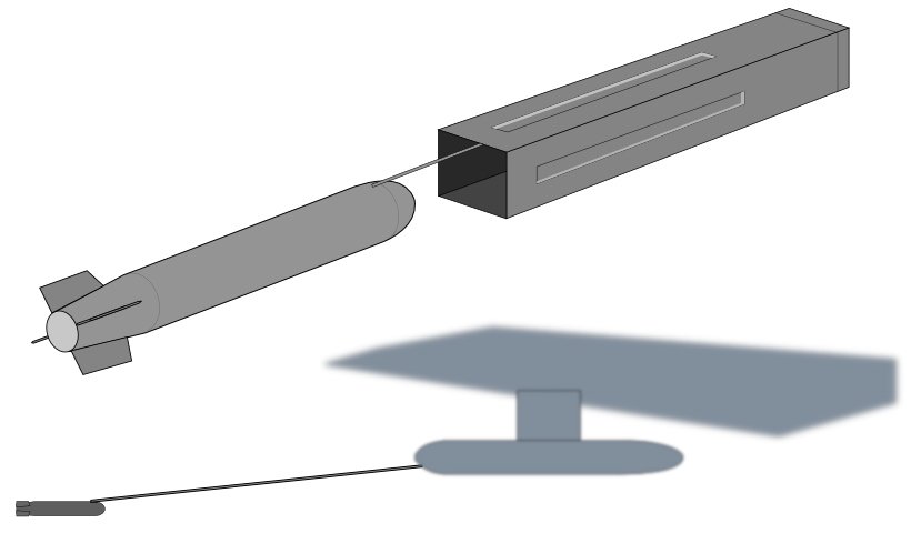 AN/ALE-50 (Launcher box & toweing style)